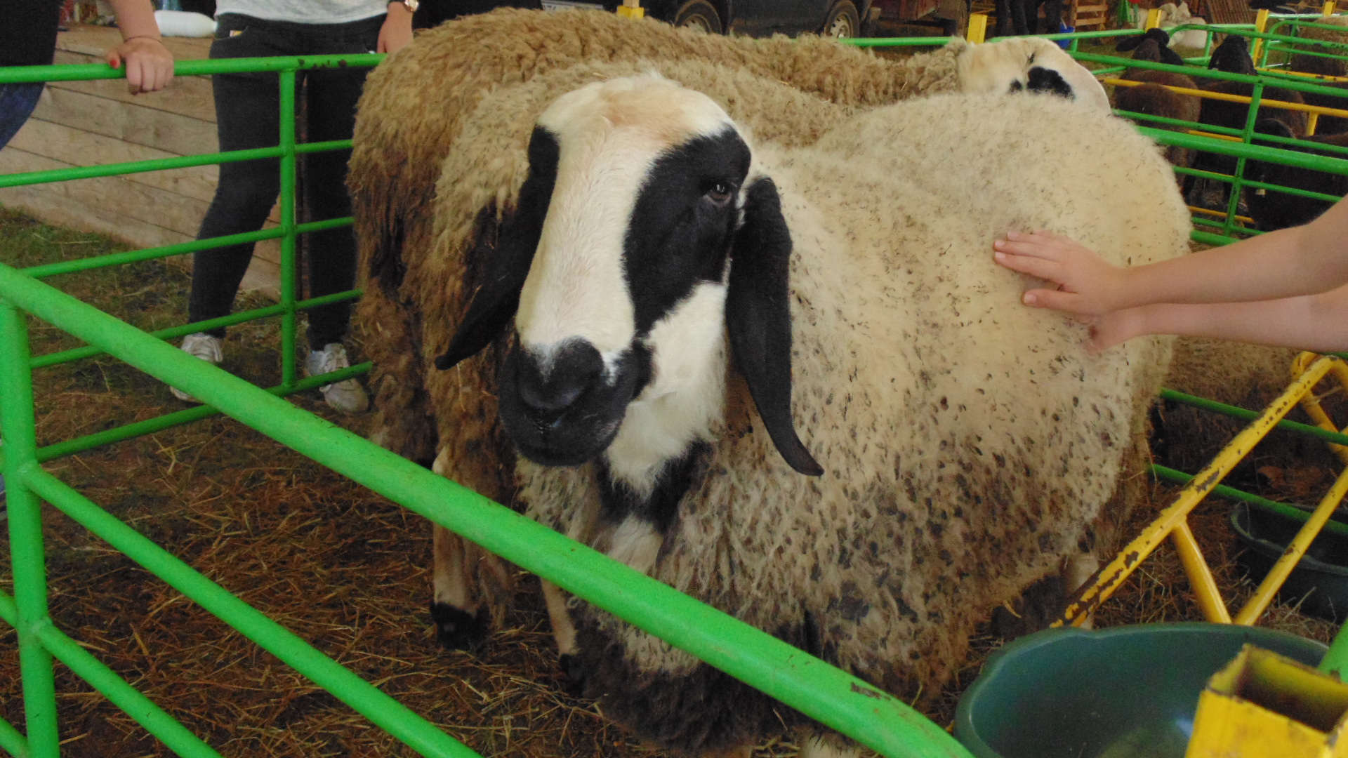 Splotch-faced Sheep